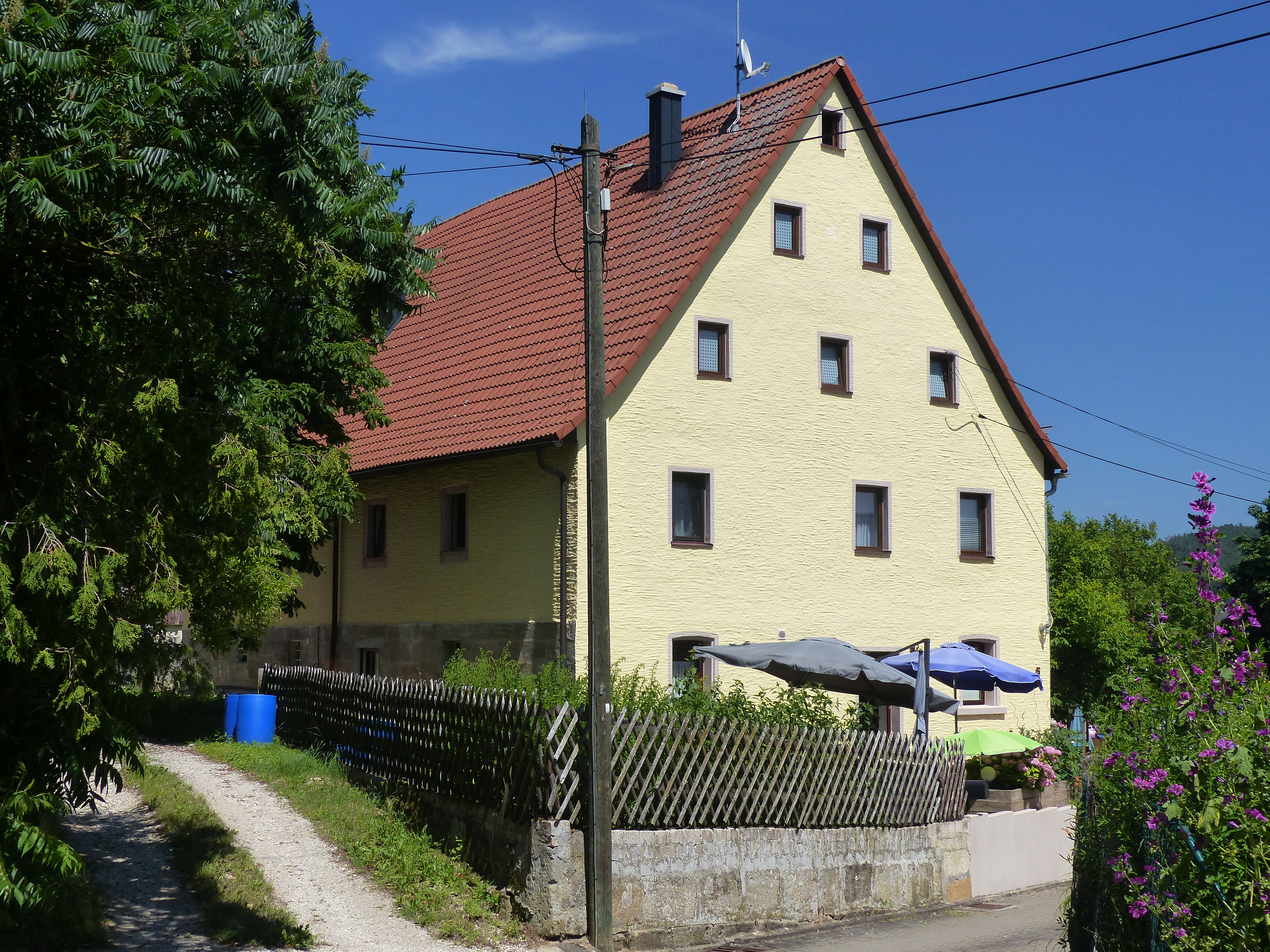 A farmhouse in the church village Großenbuch, a district of the municipality of Neunkirchen am Brand.